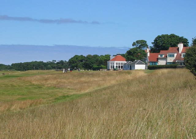 Muirfield Golf Course.